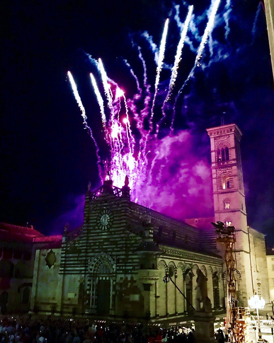 Corteggio Storico Prato 2018 fuochi duomo